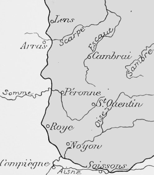 Diagram of the northward extension of the Western Front after the Battle of the Aisne, September 1914